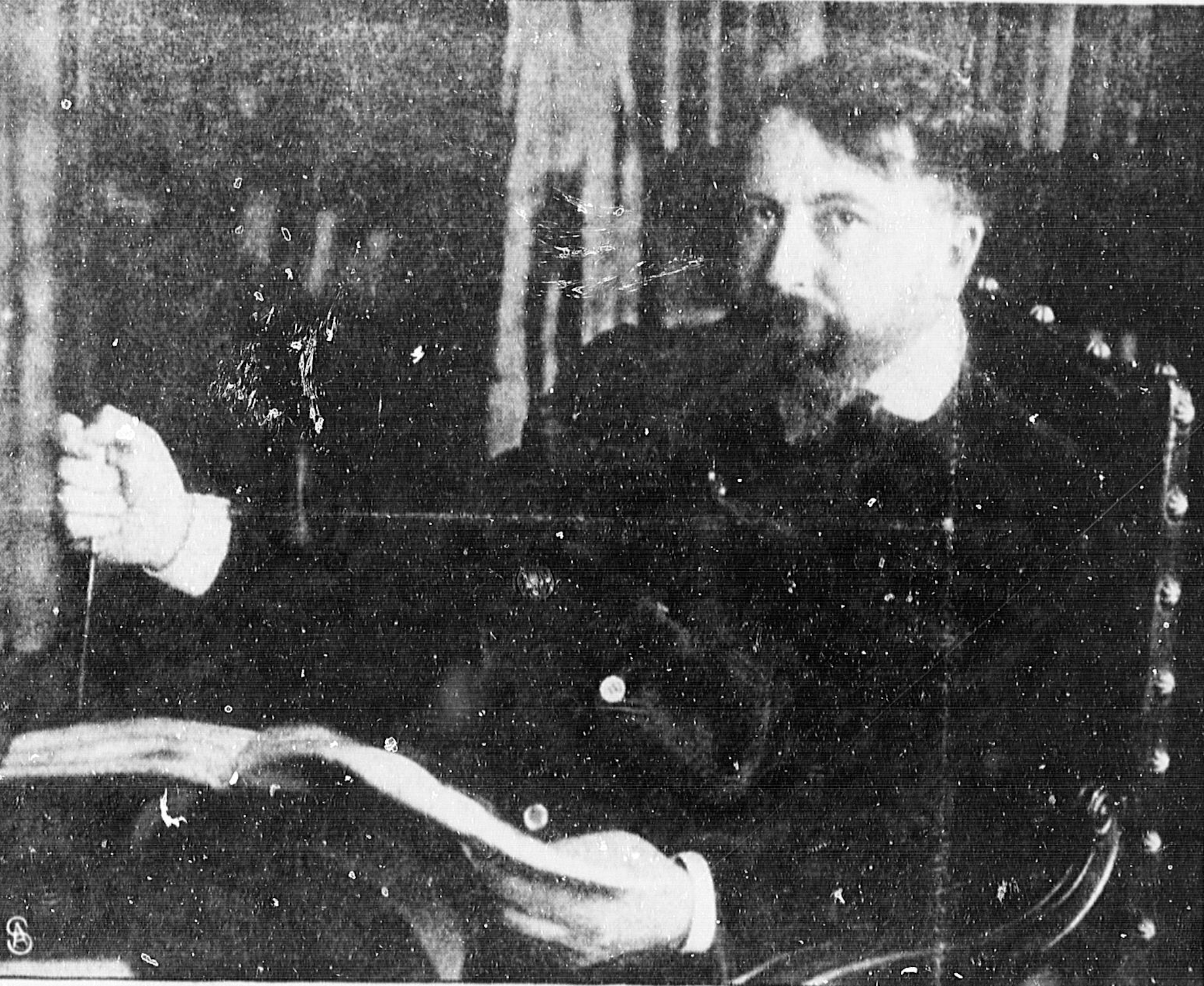 Arthur Schnitzler (1862–1931), Austrian author and dramatist.